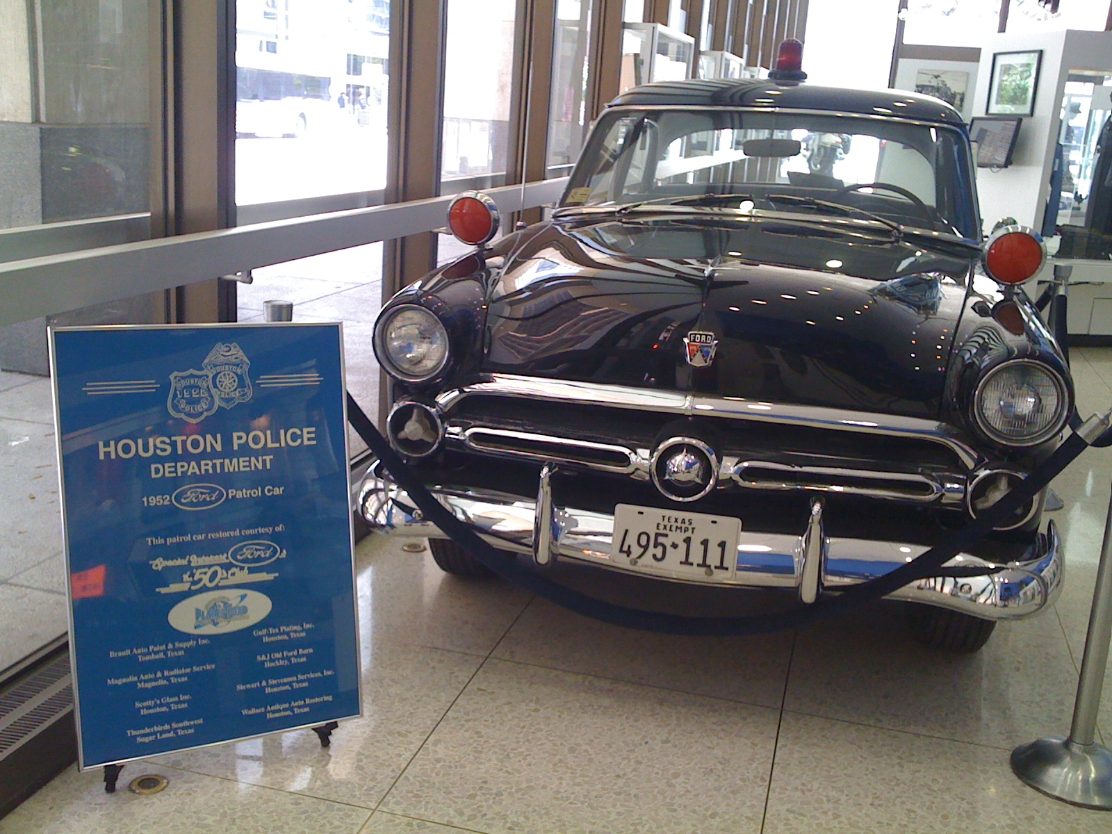 A 1952 Ford Customline patrol car that was in use by the Houston Police Department (HPD). It is now on display at the Houston Police Museum in Downtown Houston.